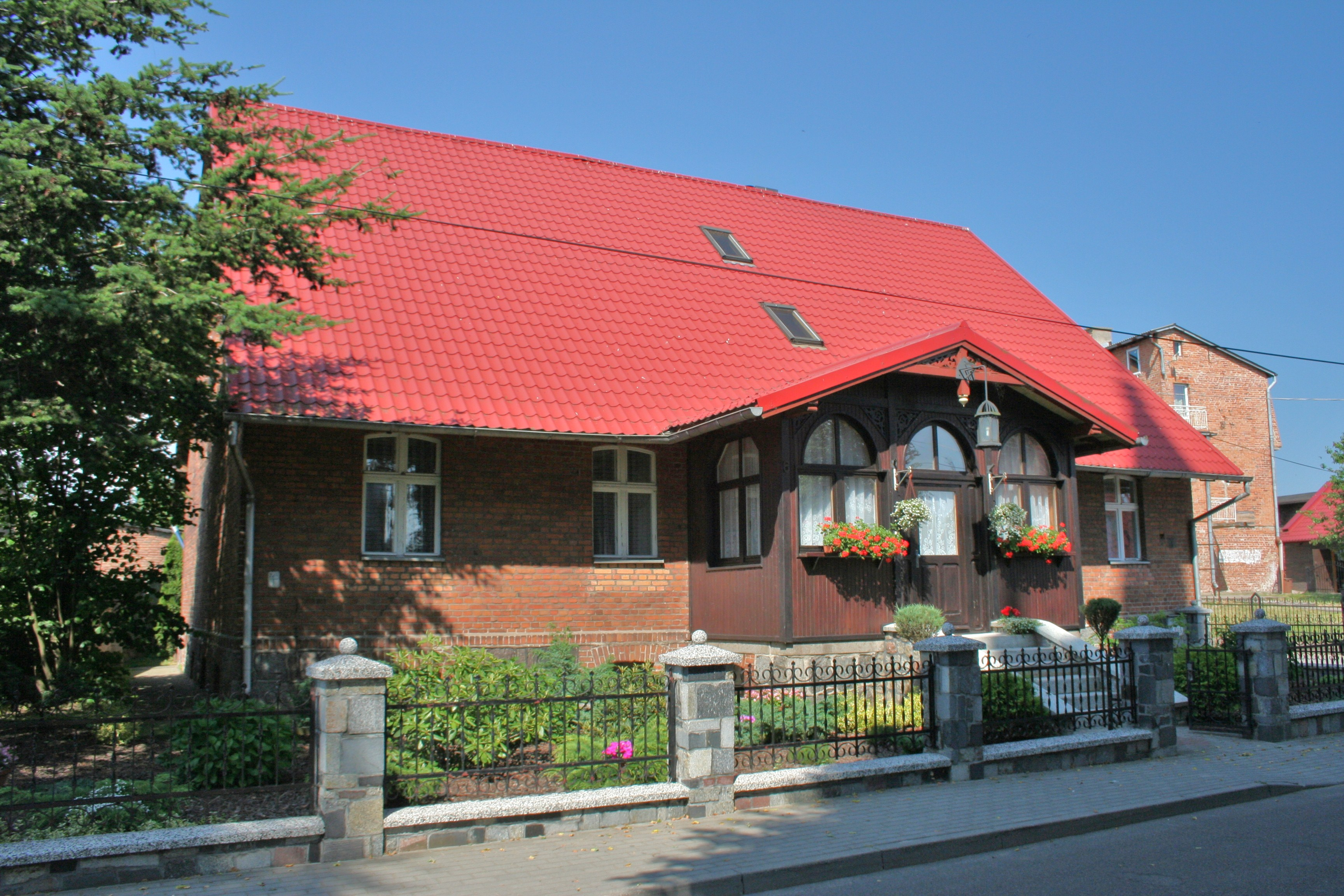 Rectory in Swarzewo.